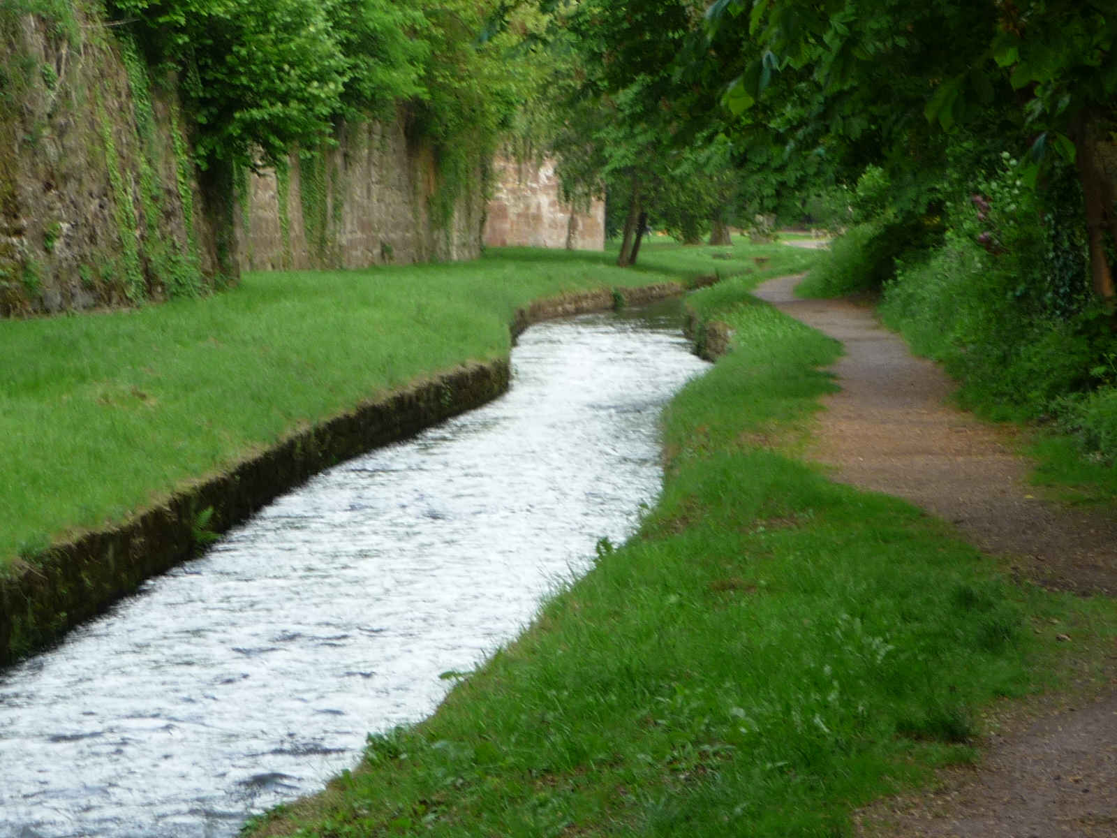 Lauter en Wissembourg